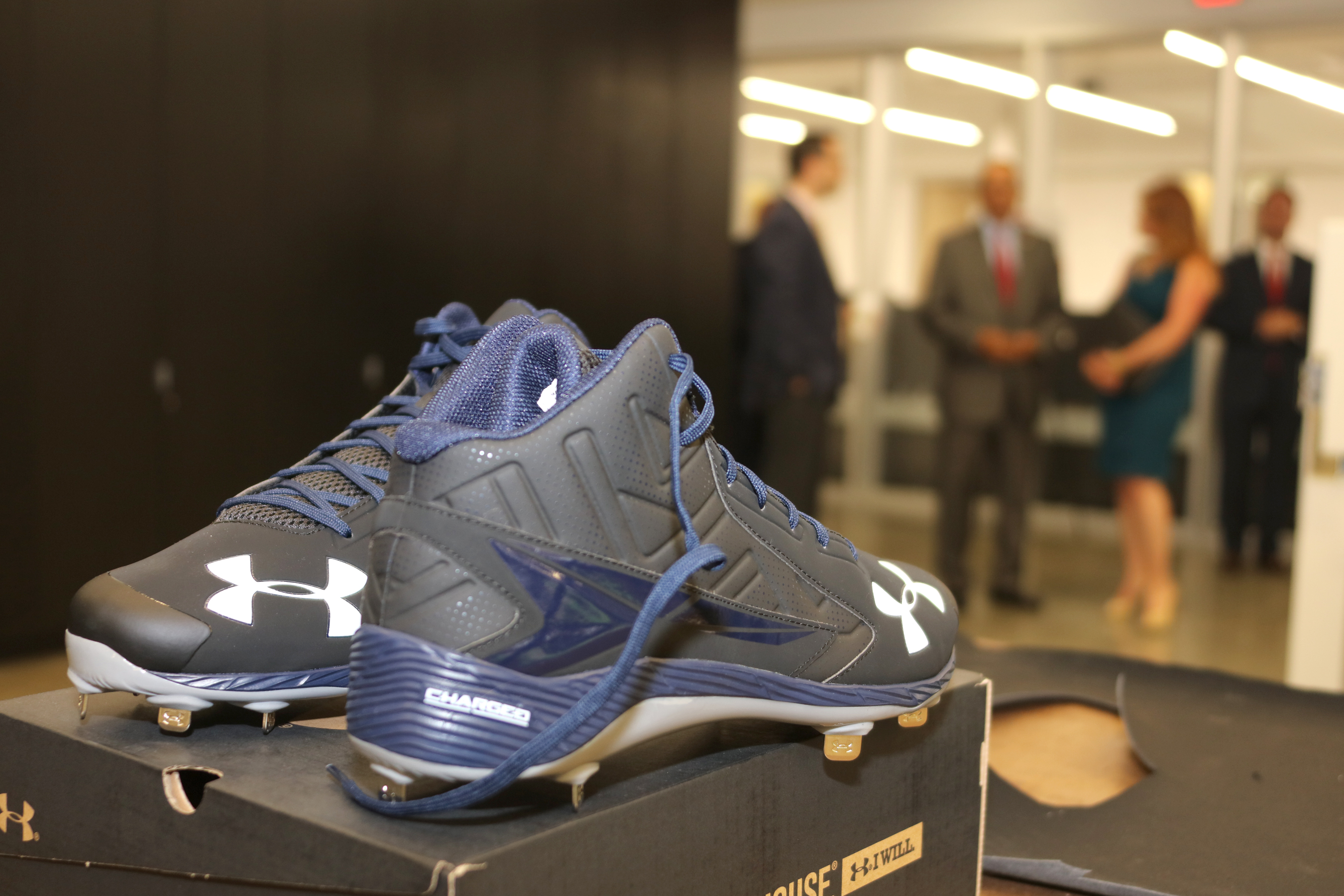 Lt. Governor Rutherford Attends the Under Armour Opening by Steve Kwak at 101 W Dickman Street Baltimore Maryland